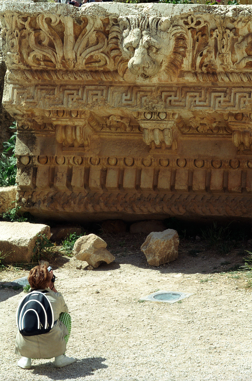 Baalbek, Temple of Jupiter